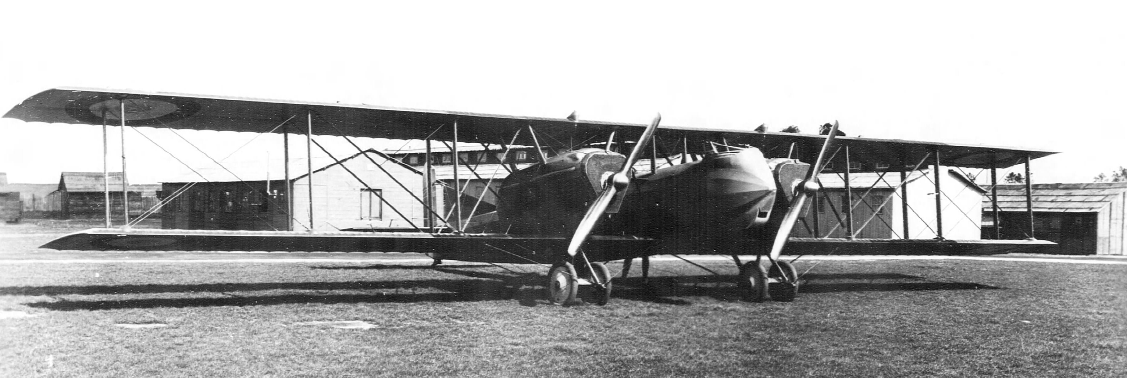 Caudron R.11 at Air Service Production Center No. 2, Romorantin Aerodrome, France, 1918